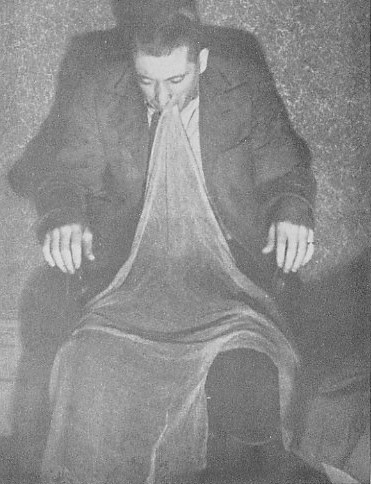 The medium Jack Webber in a séance.